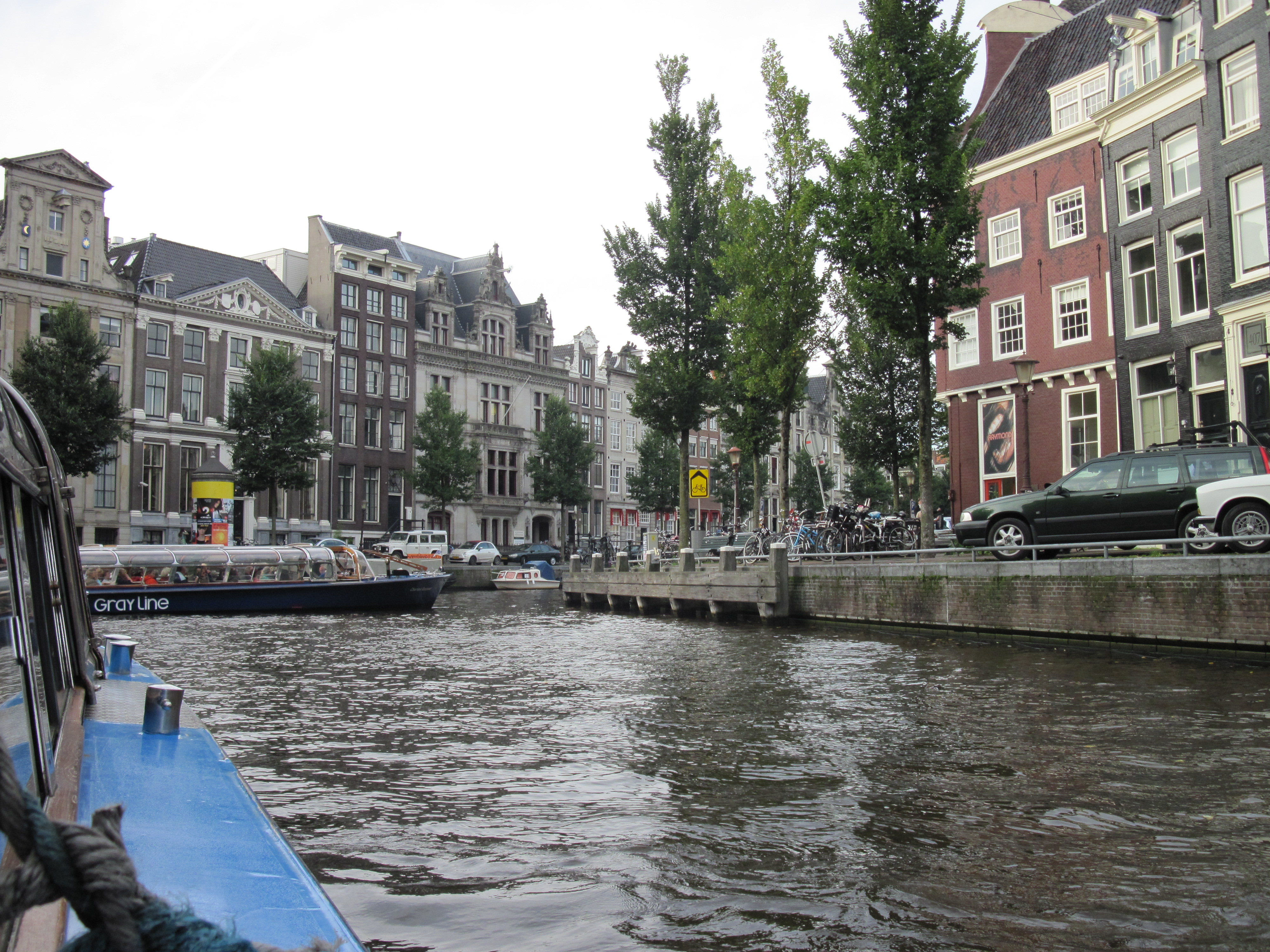 Herengracht in 2010